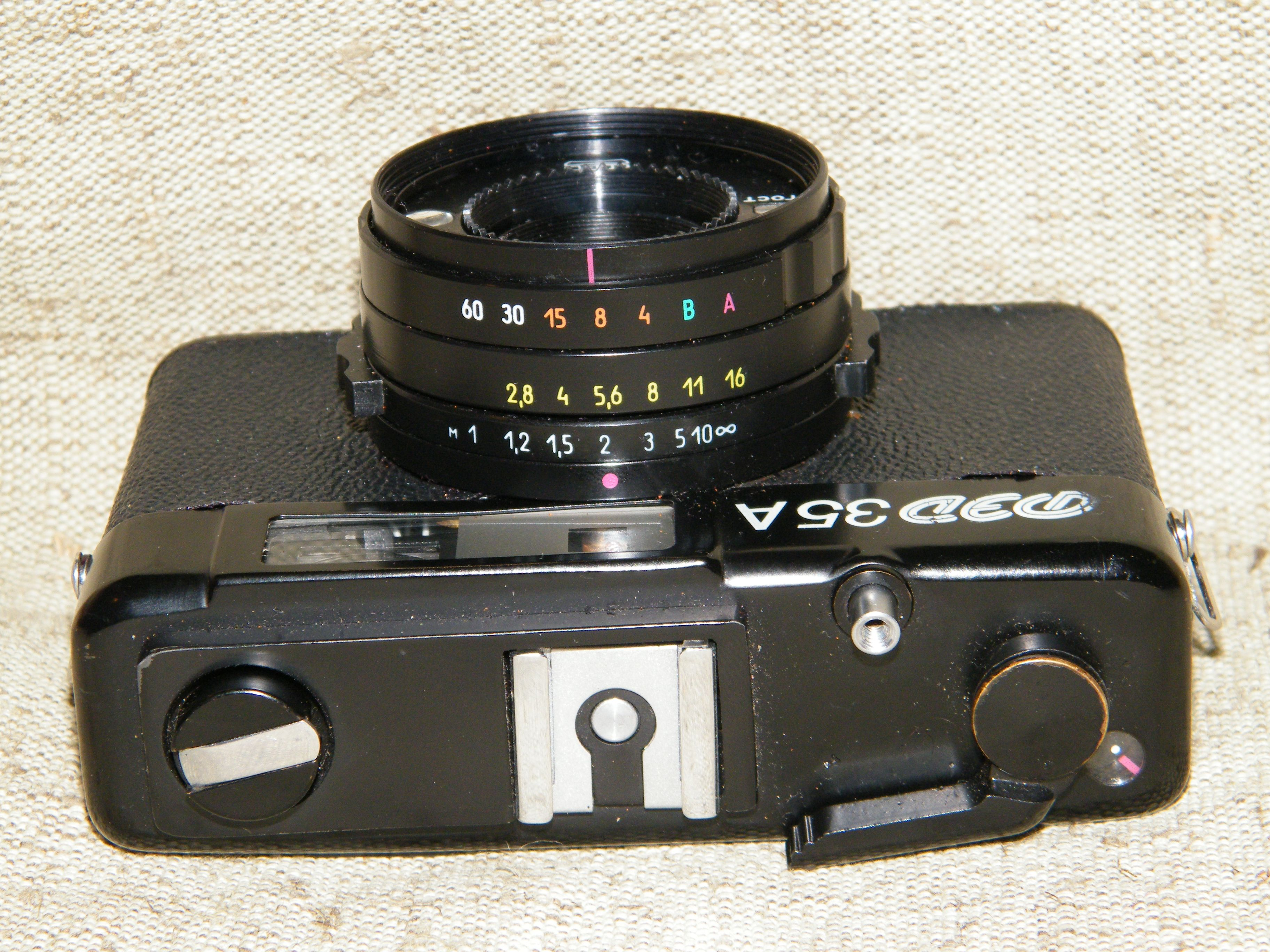 FED 35